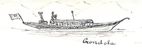 Steam yacht 'Gondola' Detail from ink sketch "Articles of Note at Coniston"